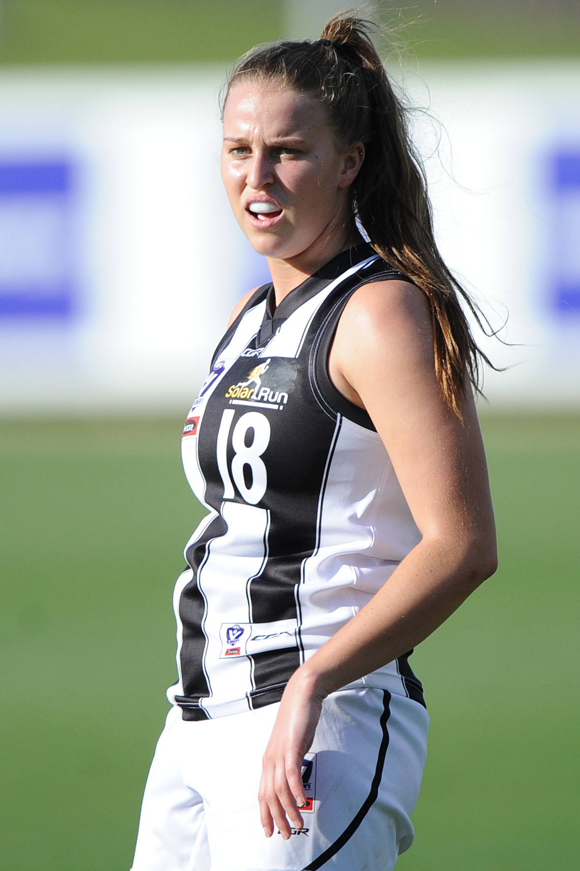 Ruby Schleicher of Collingwood during the 2018 VFLW round 8 match between NT Thunder and Collingwood at TIO Stadium on Saturday, 30 June 2018 in Darwin, Australia.